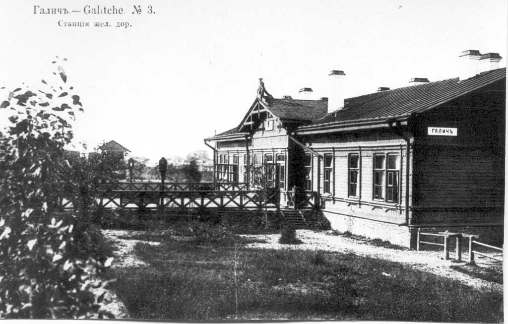 Galich railway station, Russia, early 1900th